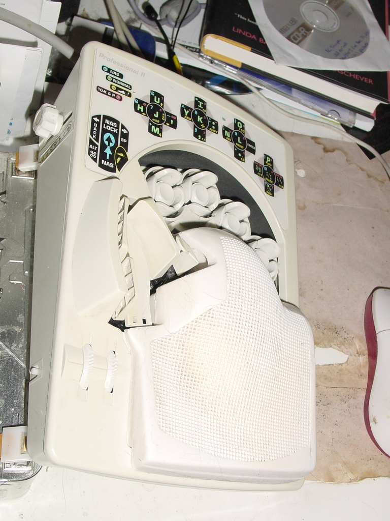 The right side of a DataHand Professional II Keyboard, circa 2005